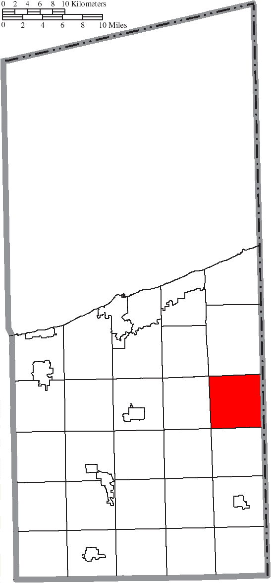 Map of the municipal and township boundaries of Ashtabula County, Ohio, United States, as of the 2000 census, with the location of Pierpont Township highlighted. Township borders are shown only in unincorporated areas in order to differentiate incorporated and unincorporated areas more clearly.